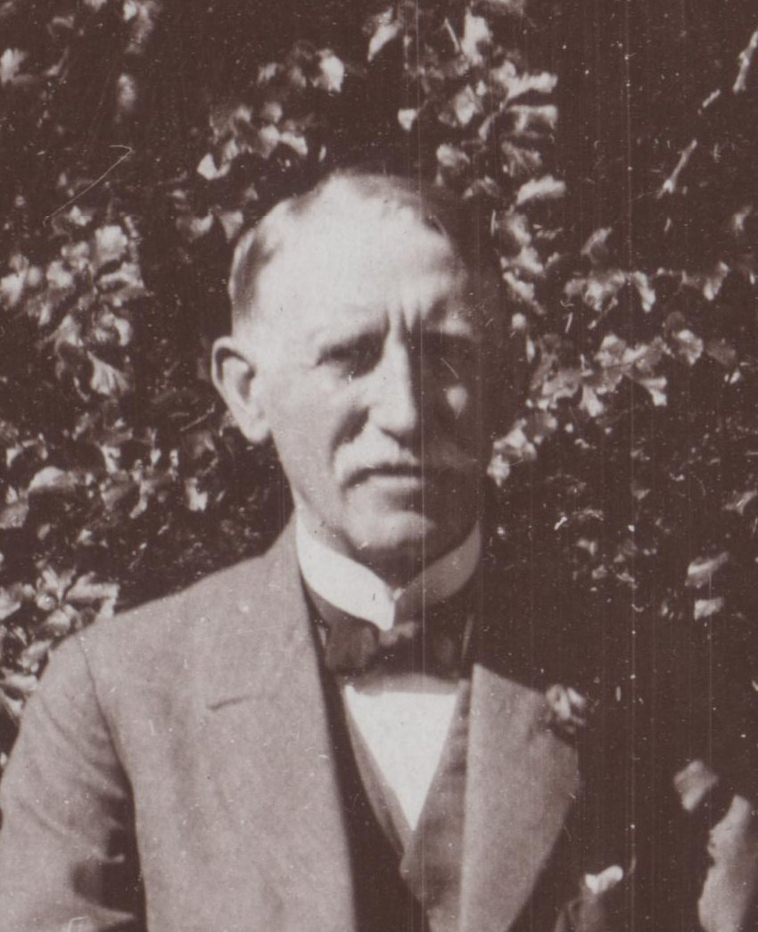 Michael Agerskov, 1870-1933, danish author and publisher of the book "Vandrer mod lyset!"(english: Toward the Light!) in 1920. The picture was taken in 1926.